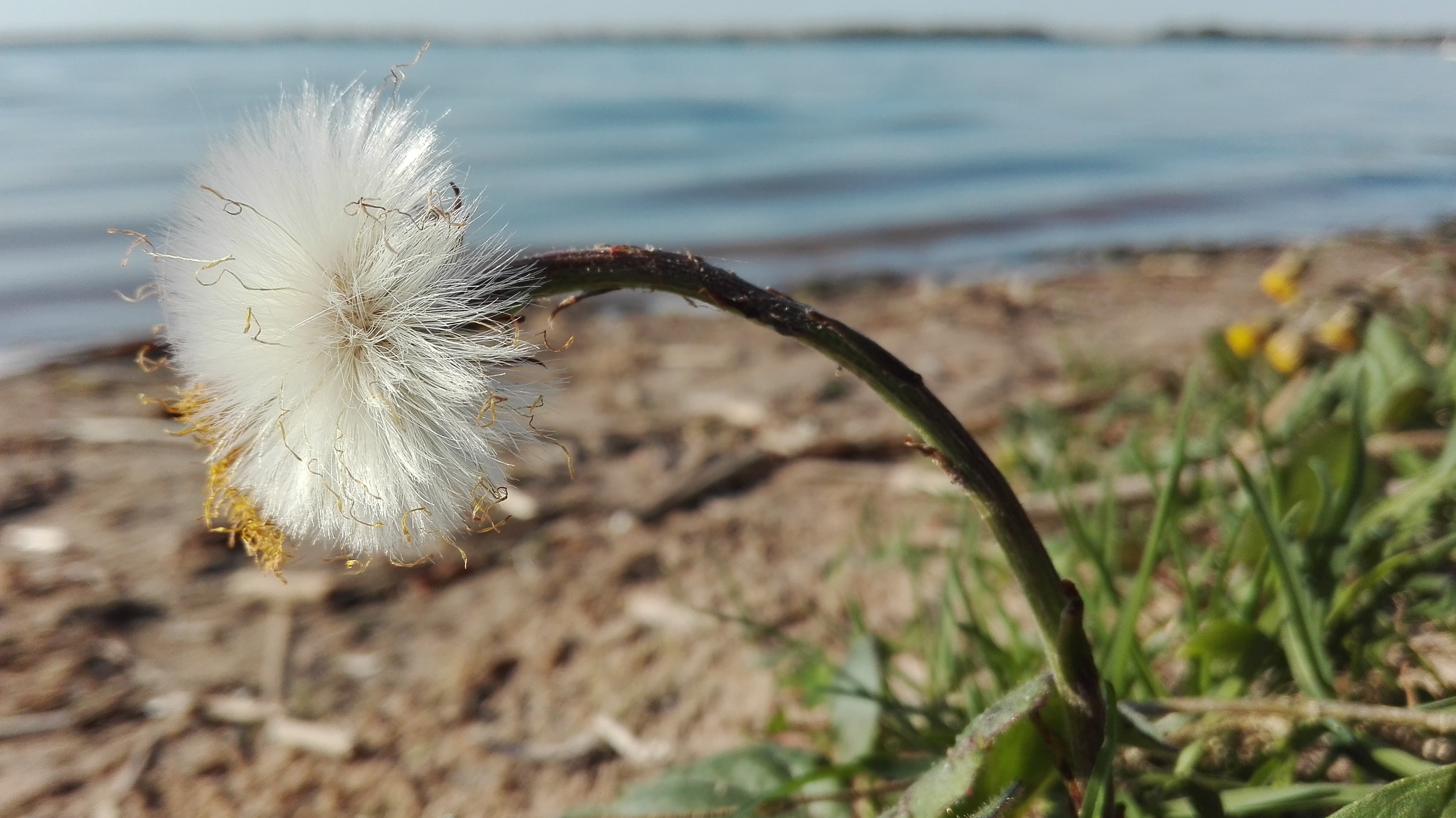 Tussilago farfara seedhead, in Estonia.